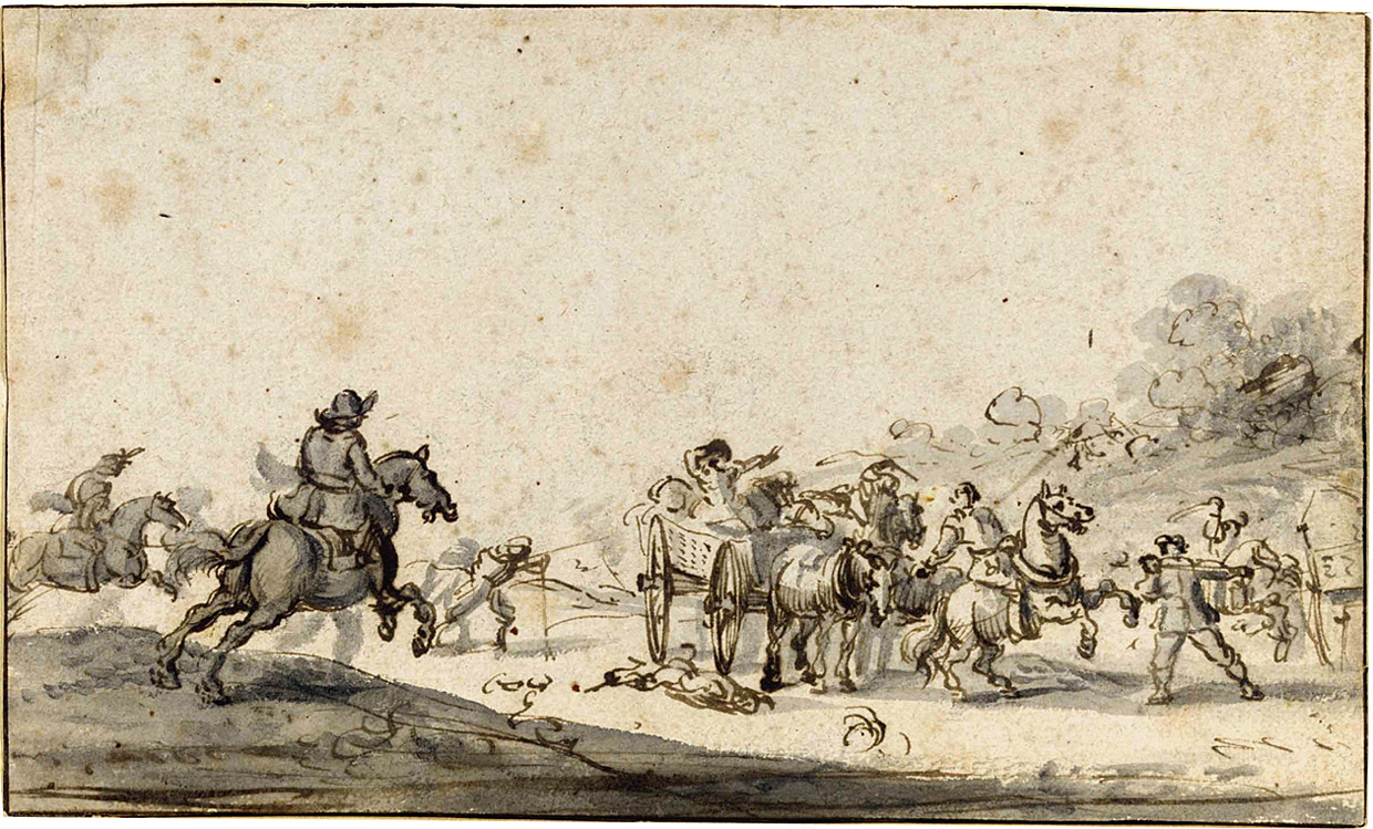 Jaques Courtois, Marauders attacking a group of travellers, pen and brown ink on white paper, private collection